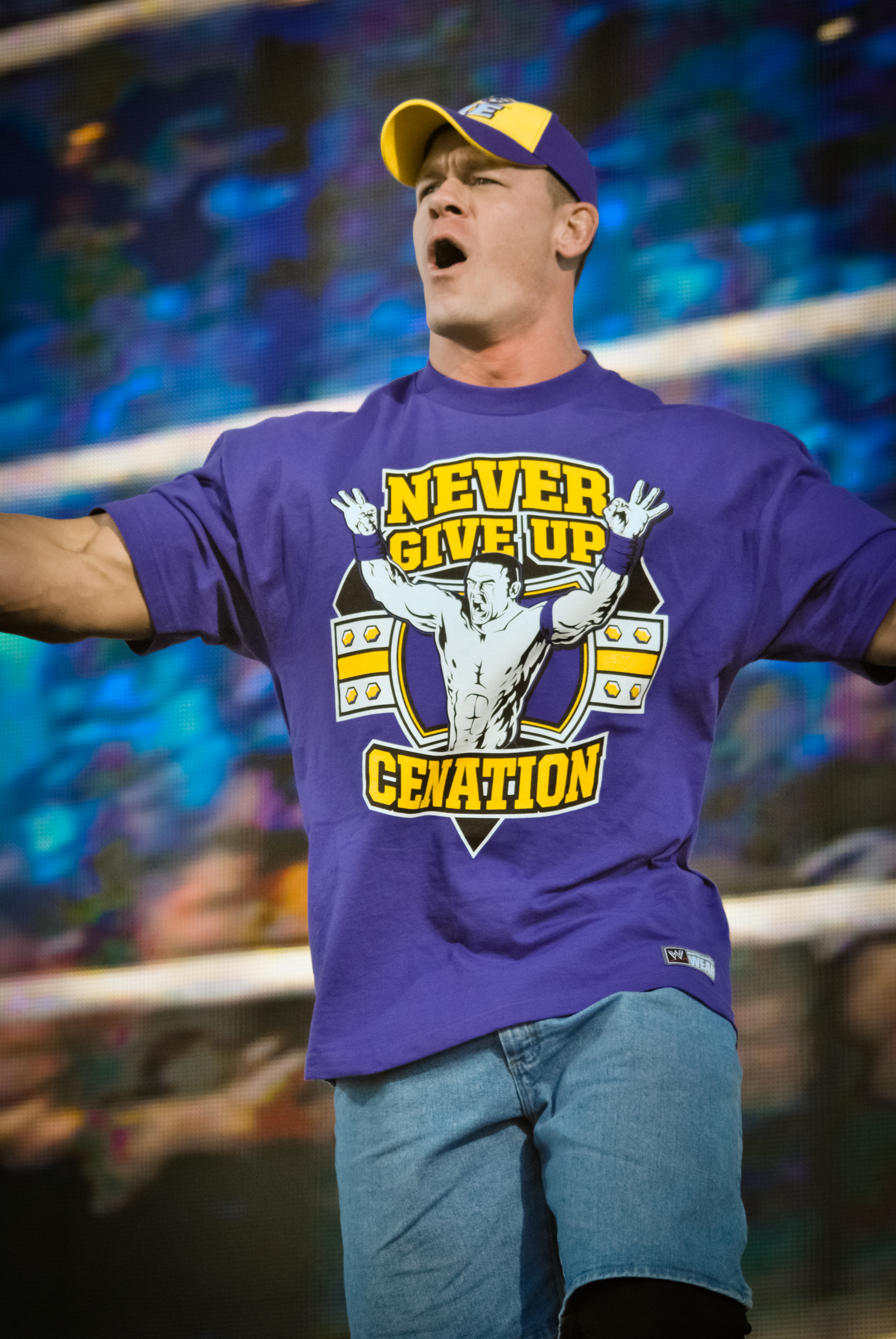 John Cena 7